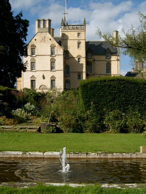 Innes House. Innes House is bisected by a grid line. This side of the house and the gardens are in this square.